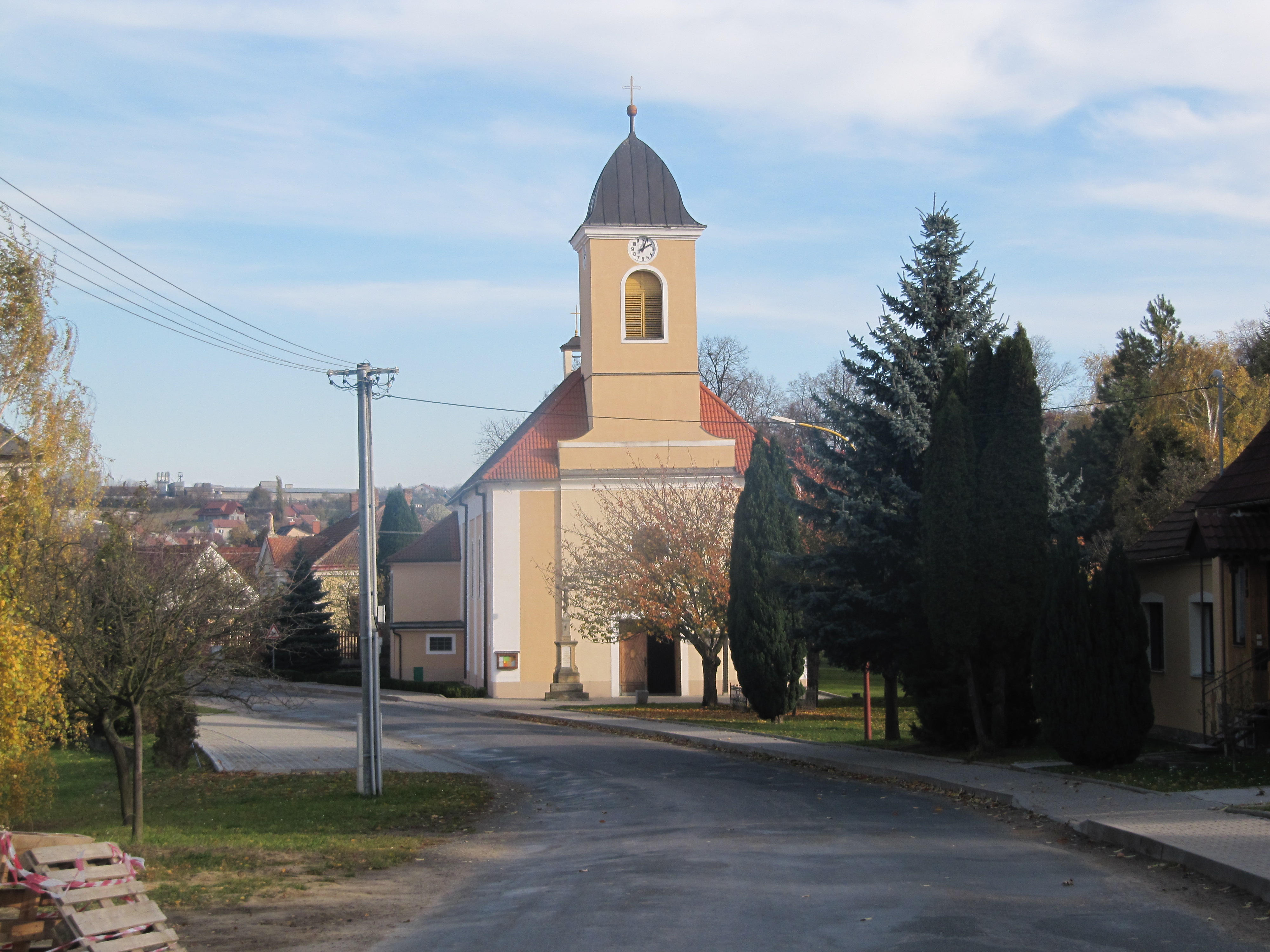 Domanín in Hodonín District, Czech Republic. Church.